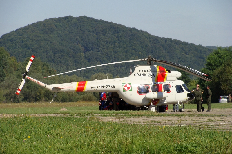 Polish Border Guard in Sanok